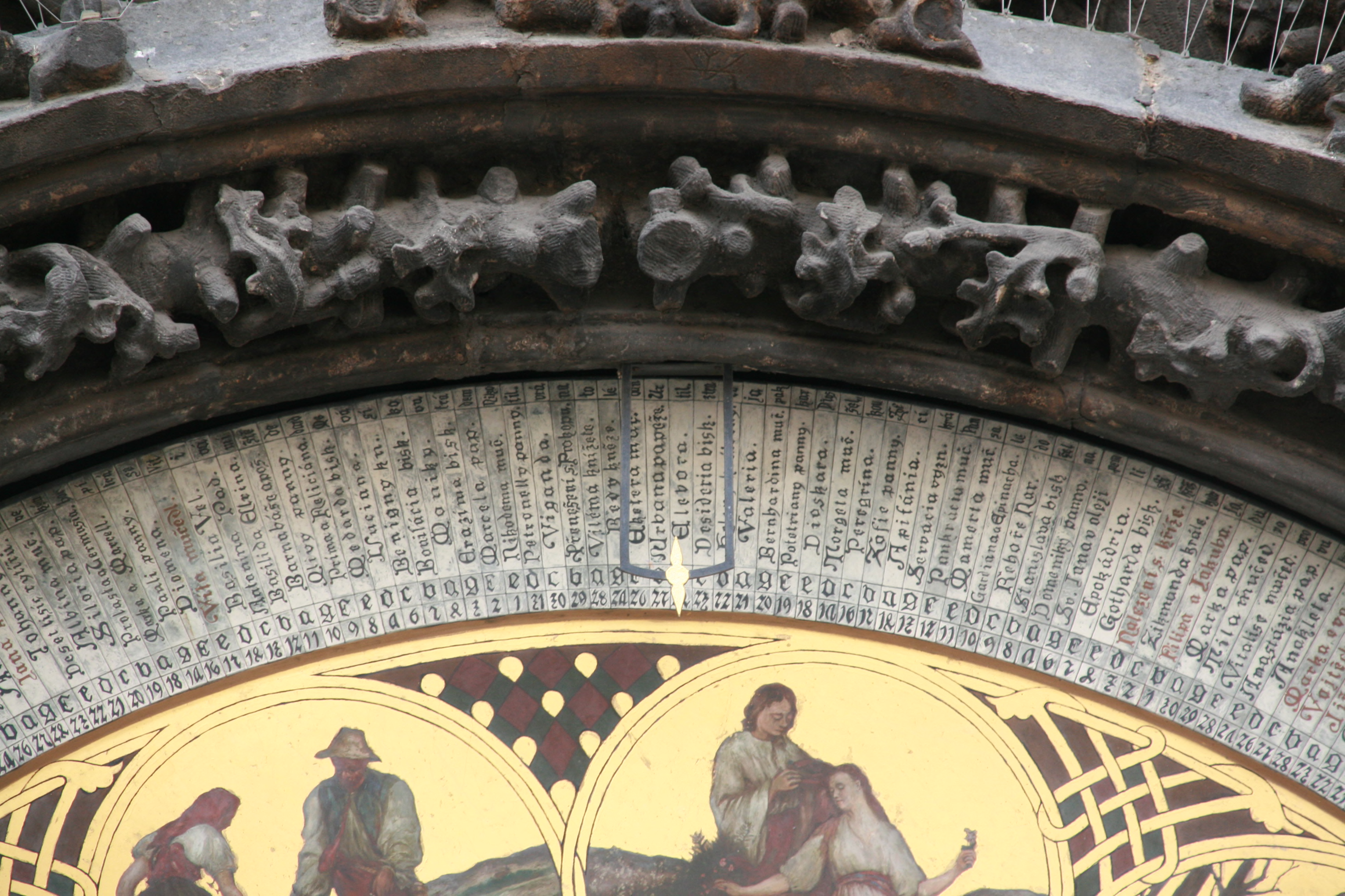 Detail view of the Prague Astronomical Clock.